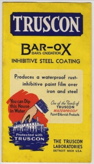 Bar-ox coating brochure. Out of Copyright, Copyright not renewed